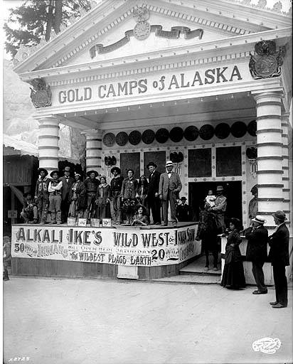 Advertises Alkali Ike's Wild West & Indian Show. PH Coll 727.691 Subjects (LCSH): Gold Camps of Alaska (Seattle, Wash.); Pay Streak (Seattle, Wash.); Alaska-Yukon-Pacific Exposition (1909 : Seattle, Wash.); Exhibitions--Washington (State)--Seattle